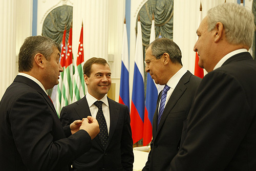 THE KREMLIN, MOSCOW. From left to right: with President of South Ossetia Eduard Kokoity, Foreign Minister Sergei Lavrov and President of Abkhazia Sergei Bagapsh.